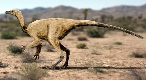 Qiupalong